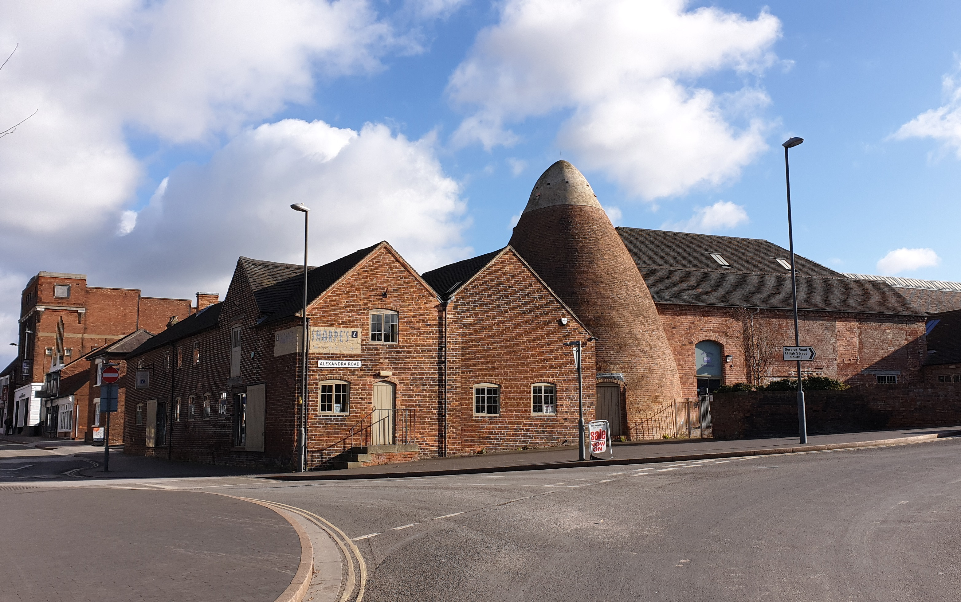 Picture shows Sharpe's Pottery Museum building located in Swadlincote, South Derbyshire